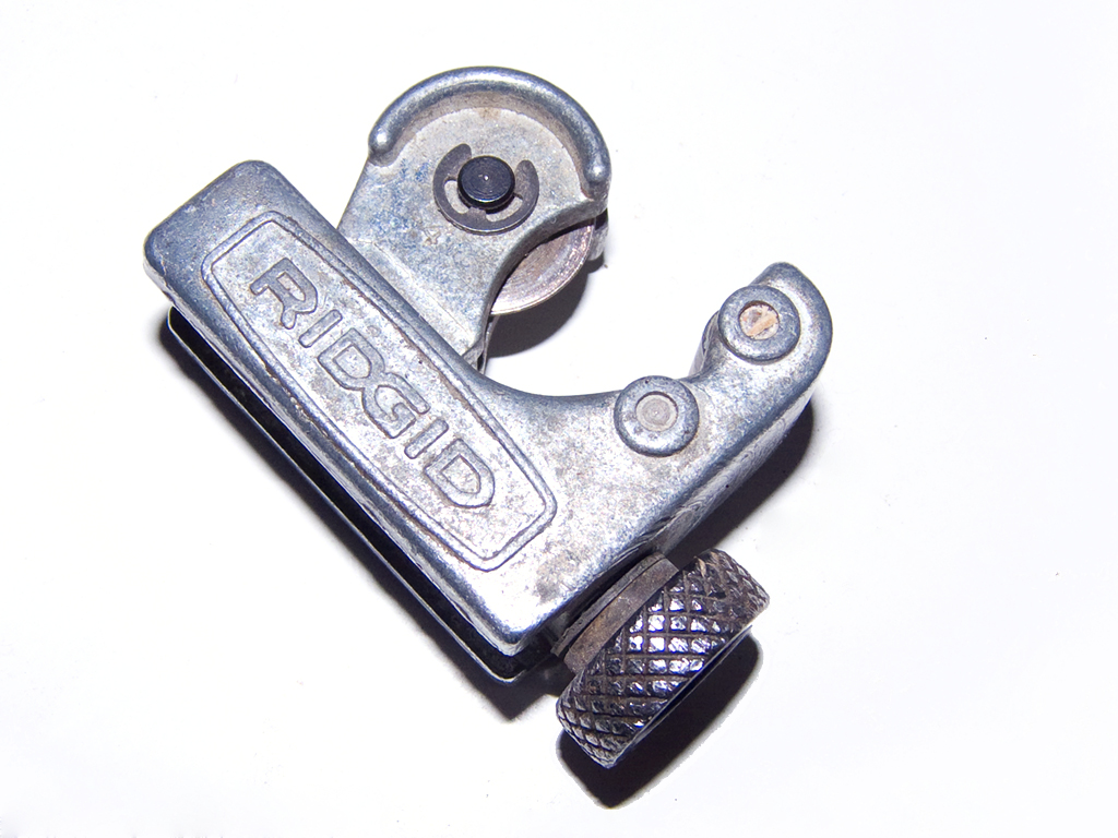 En rörskärare